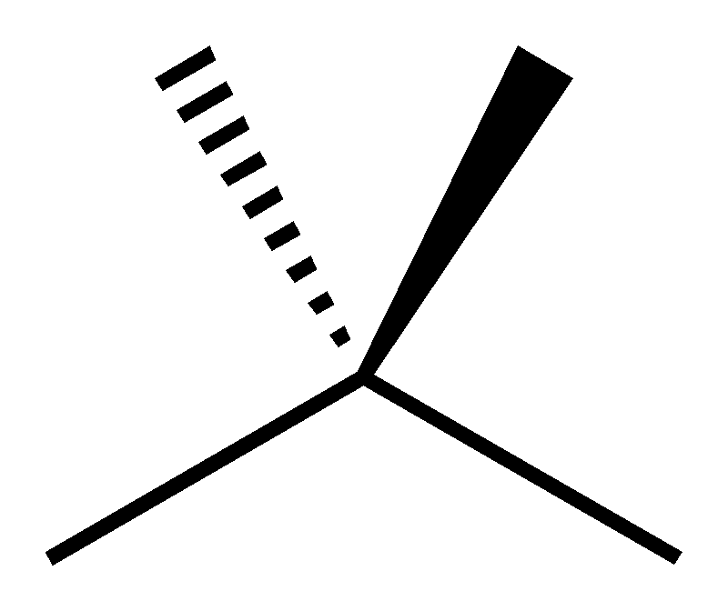 Skeletal formula of neopentane, C5H12. Structure drawn in ChemDraw Ultra 11.0.